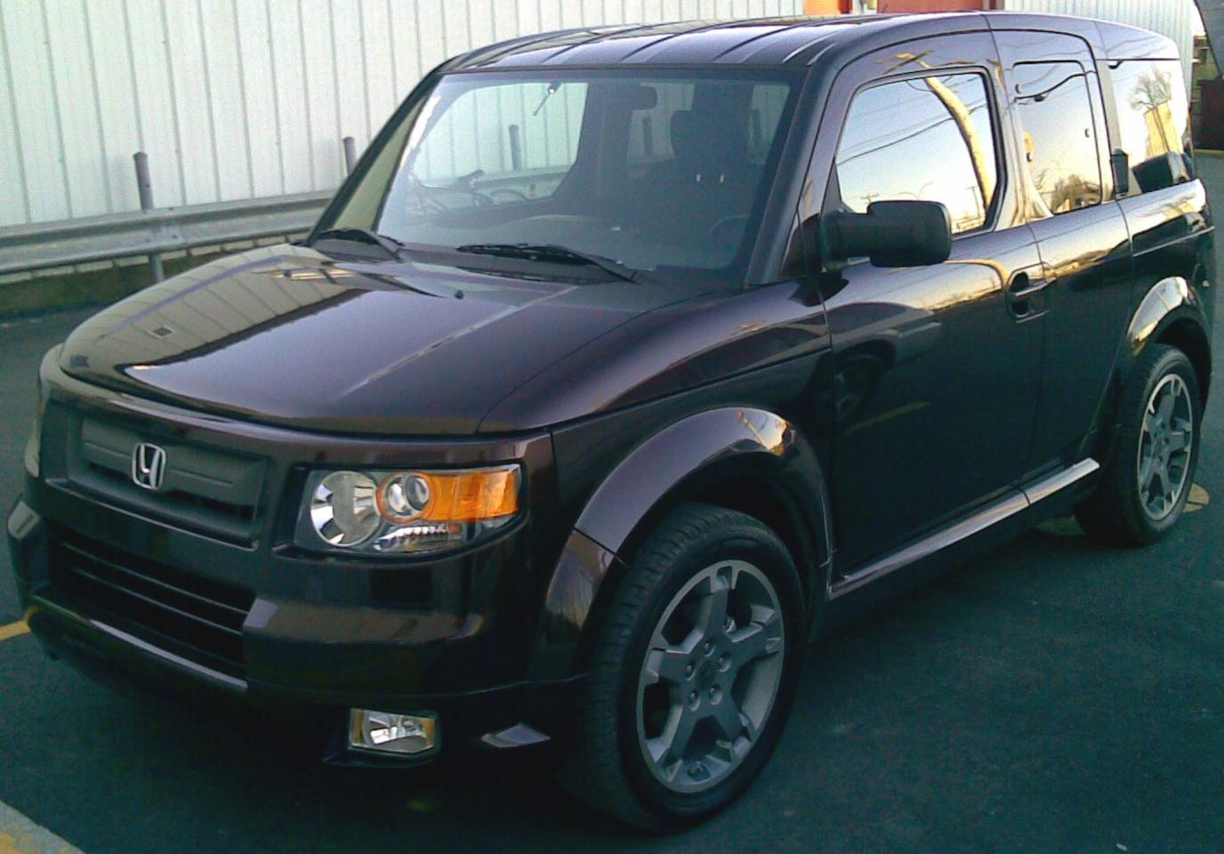 2007 Honda Element SC photographed in Montreal, Quebec, Canada.